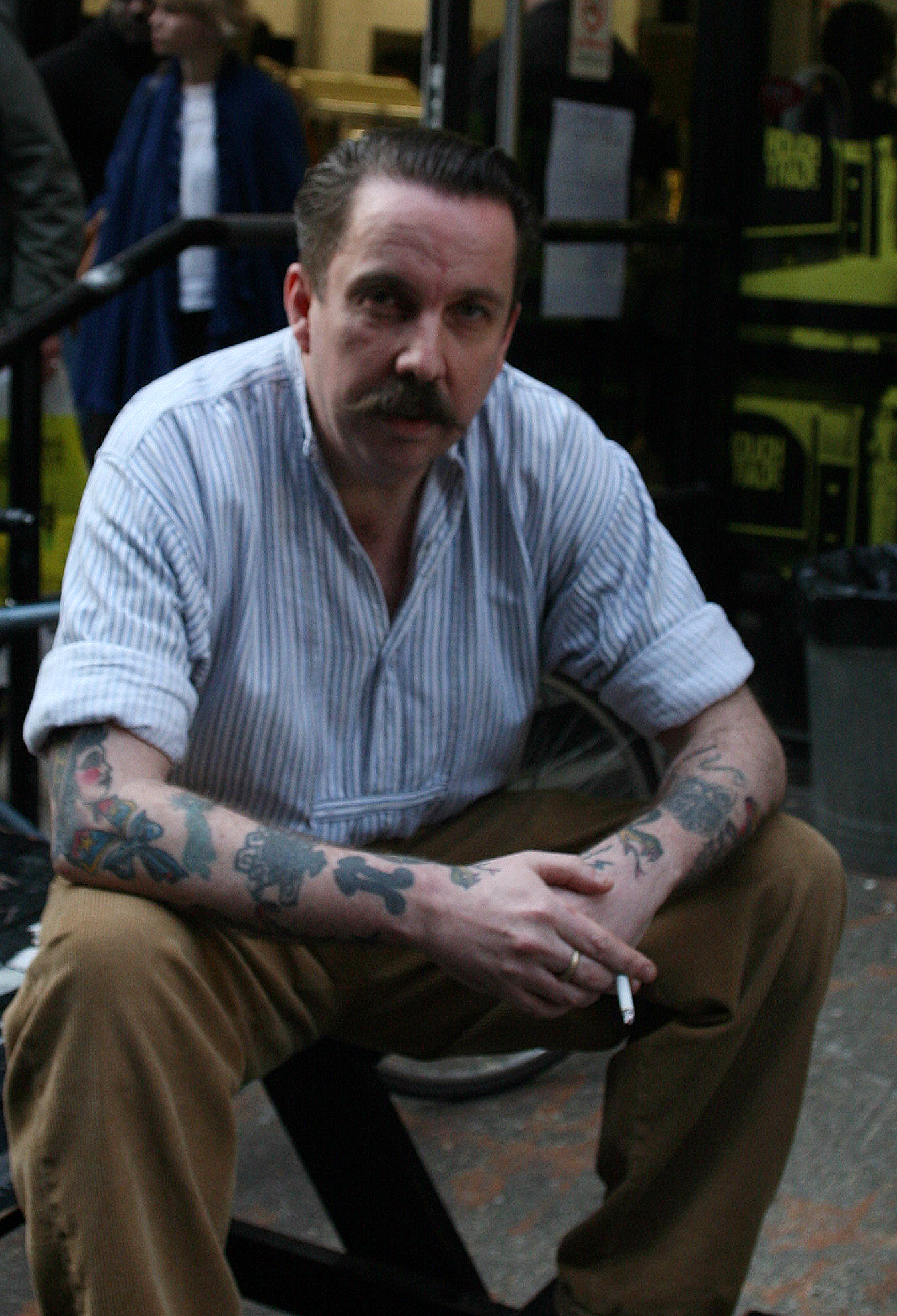 Weatherall at Rough Trade East, London, for Record Store Day 2009. Photo by Tom McShane.